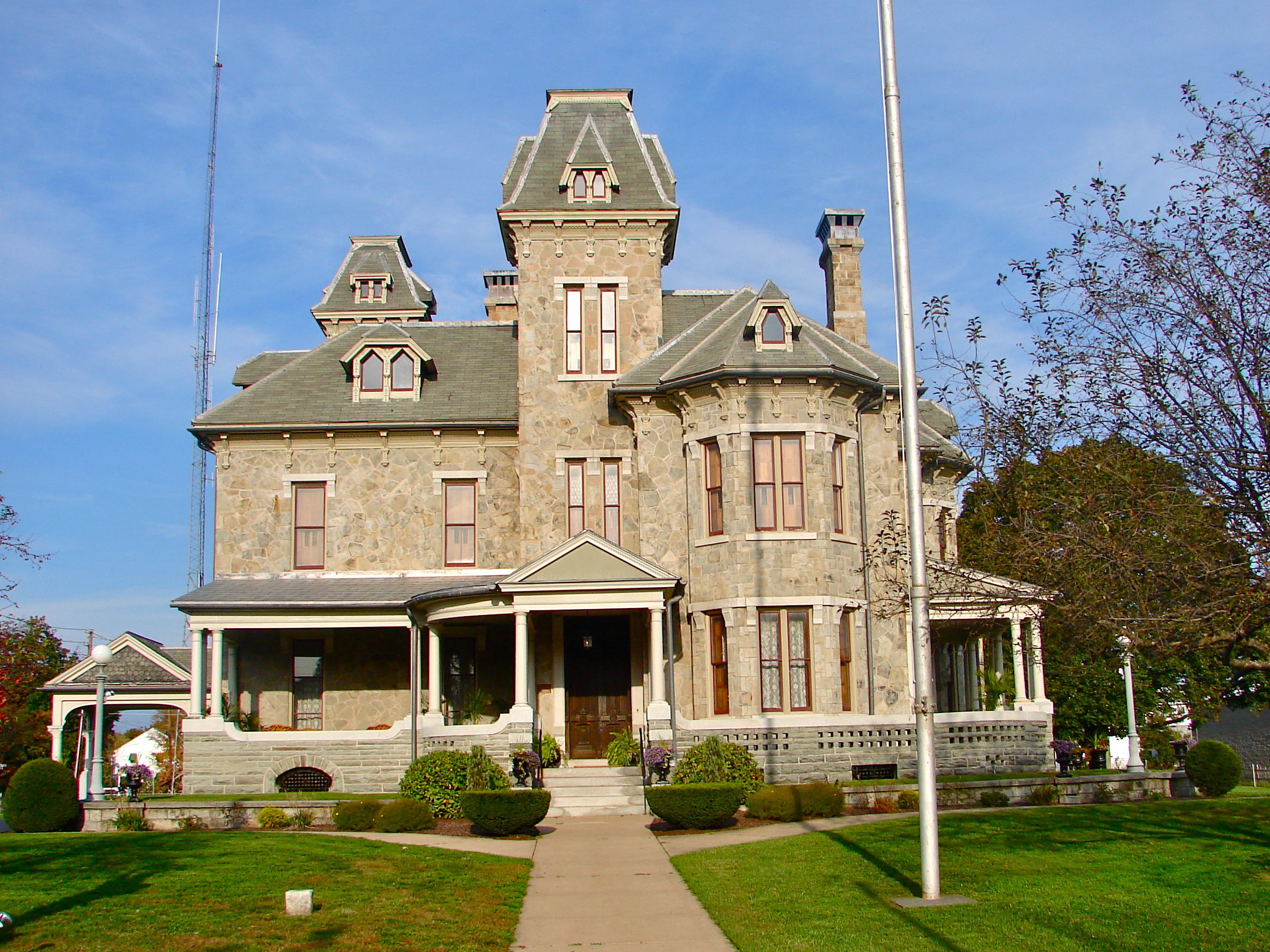 Jackson Mansion and Carriage House on the NRHP since September 5, 1985. At 344 Market Street, Berwick, Columbia County, Pennsylvania